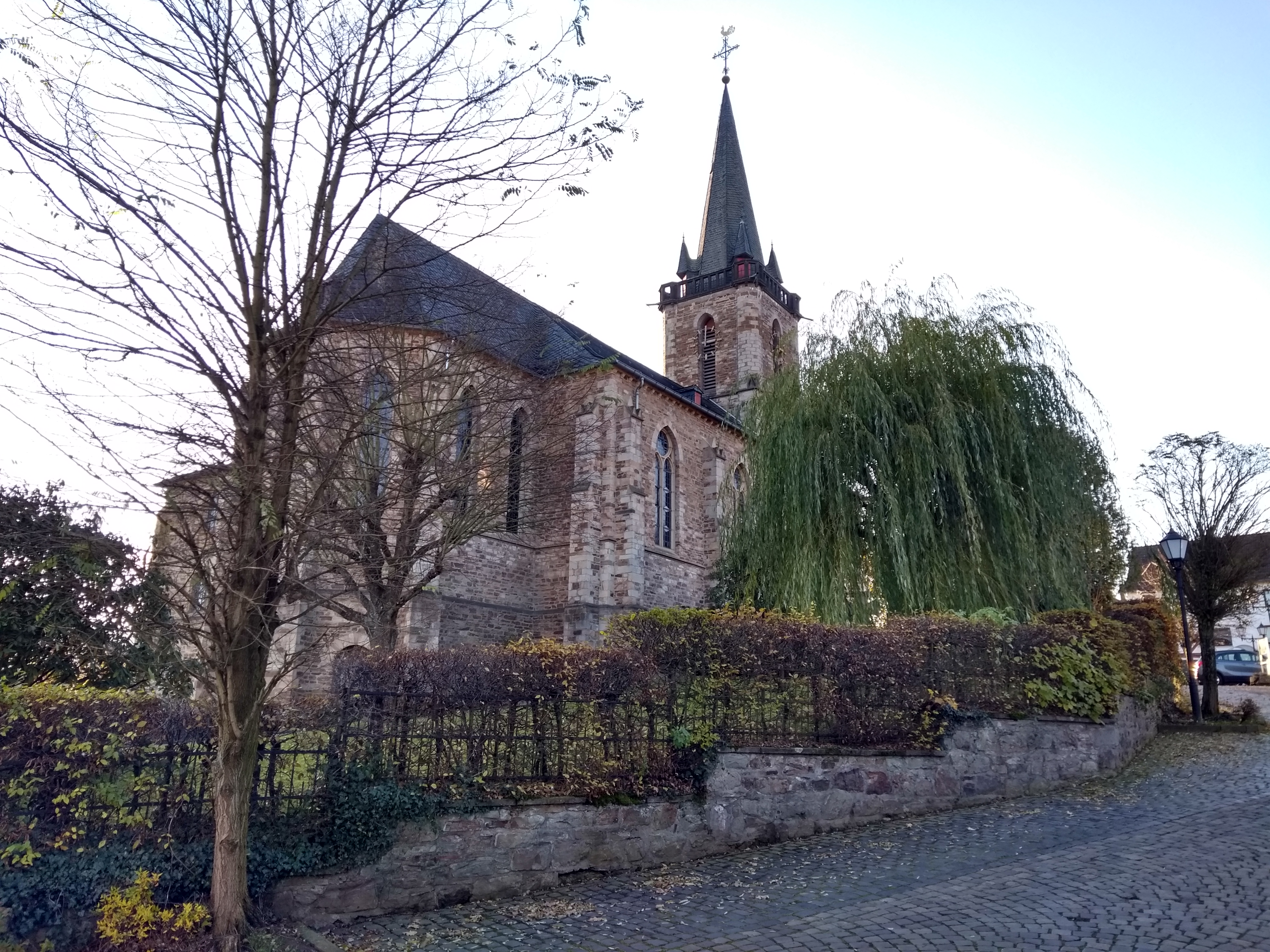 Church St. Antonius at Oberlahr is a Catholic Church. Laying of the foundation stone in 1874, built until 1876.